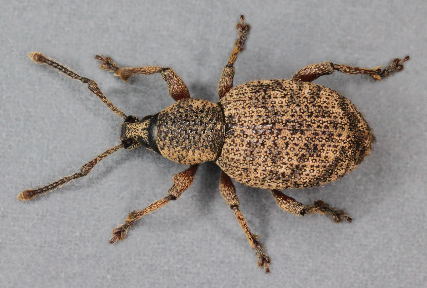 Otiorhynchus singularis, Barmouth, North Wales, May 2010 2